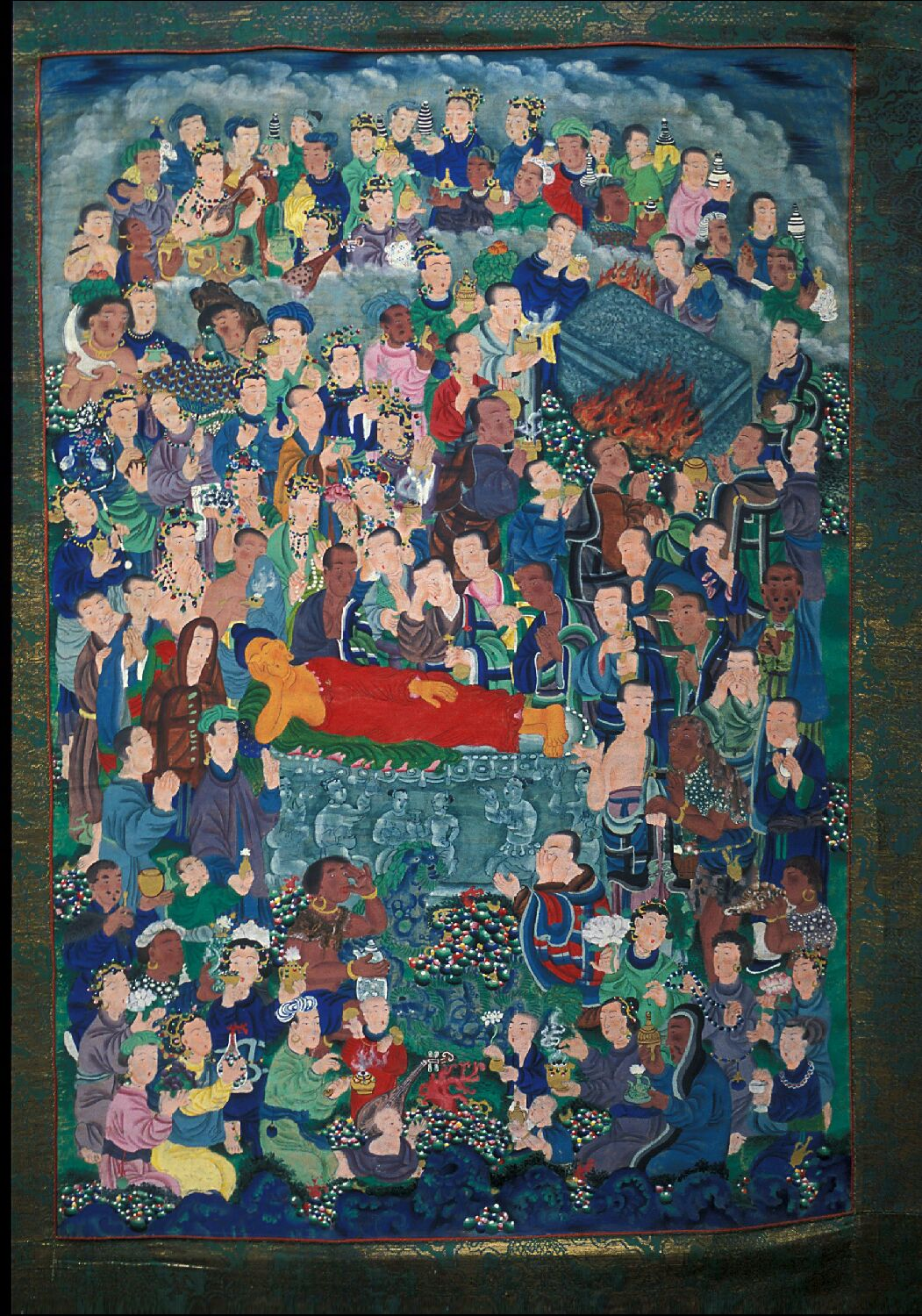 Shakyamuni Life Story (Choying Dorje). Collection of Shechen Archives - photographs.